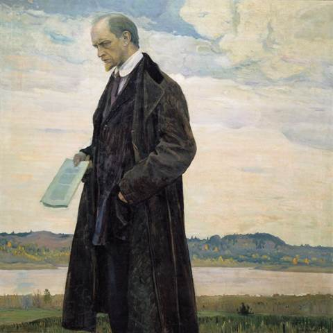 Russian philosopher, Ivan Ilyin